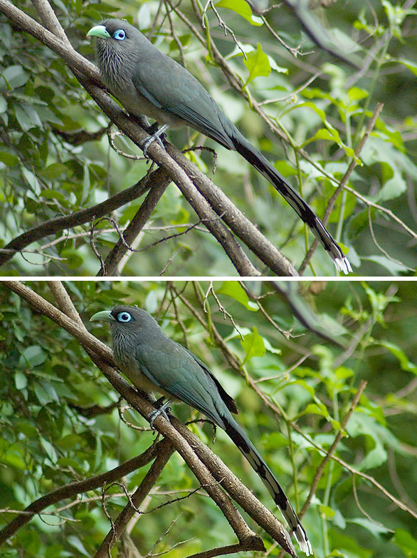 Phaenicophaeus viridirostris from Iyerpadi, Valparai, Tamil Nadu, India.